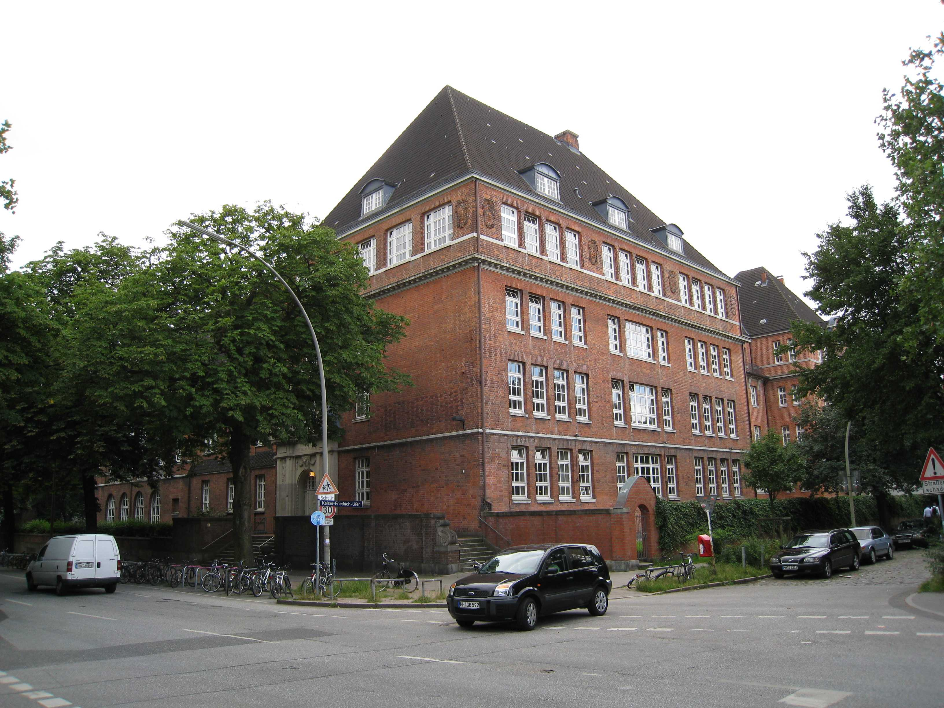 This is the building where pupils of the "Eimsbüttler Modell" are thought.